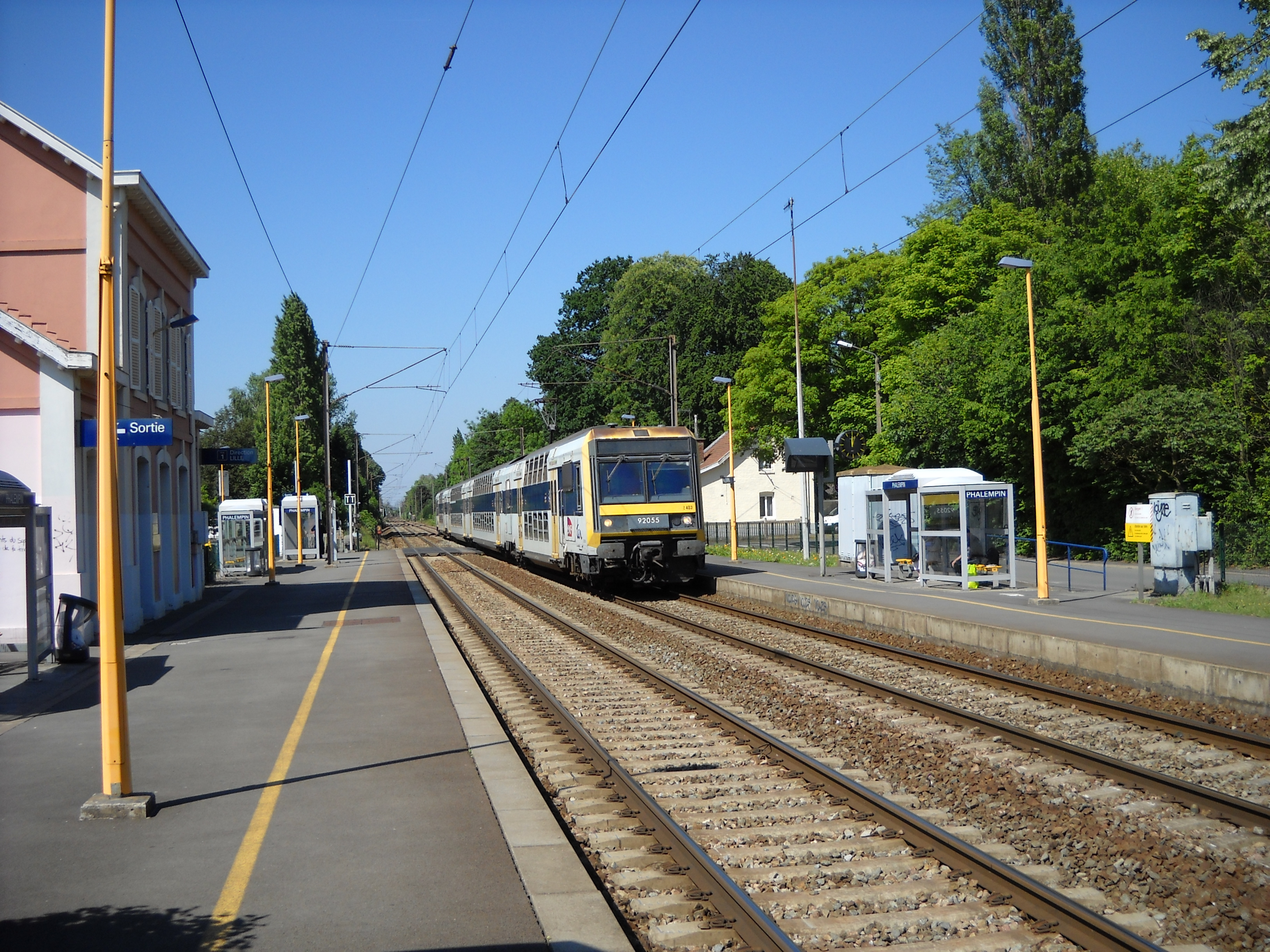 The train station of Phalempin, Nord, France.